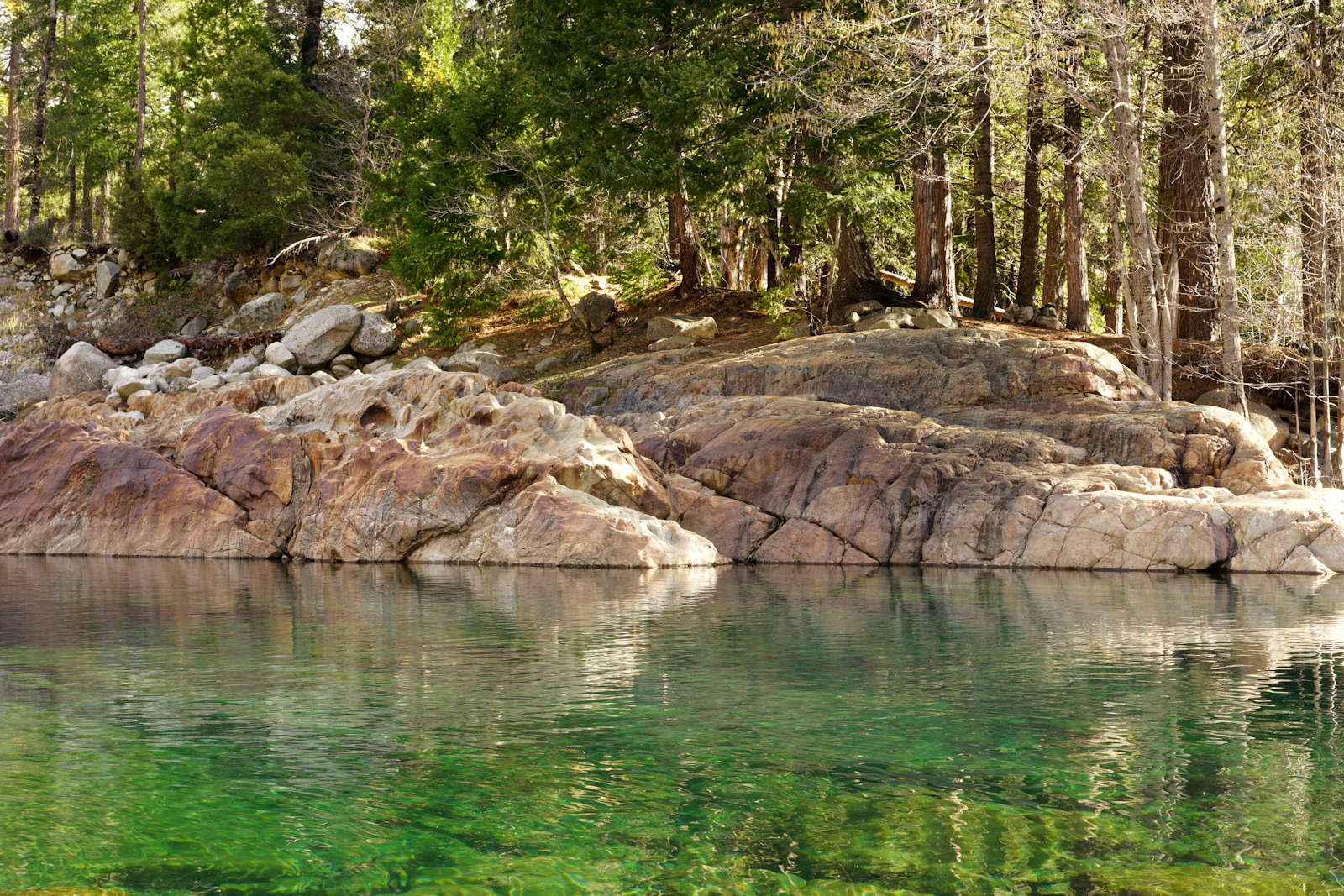 Emerald Pools in Northern California. Unique geology and water conditions allow for this location to be a popular summer destination for locals and those who know about this hidden gem.